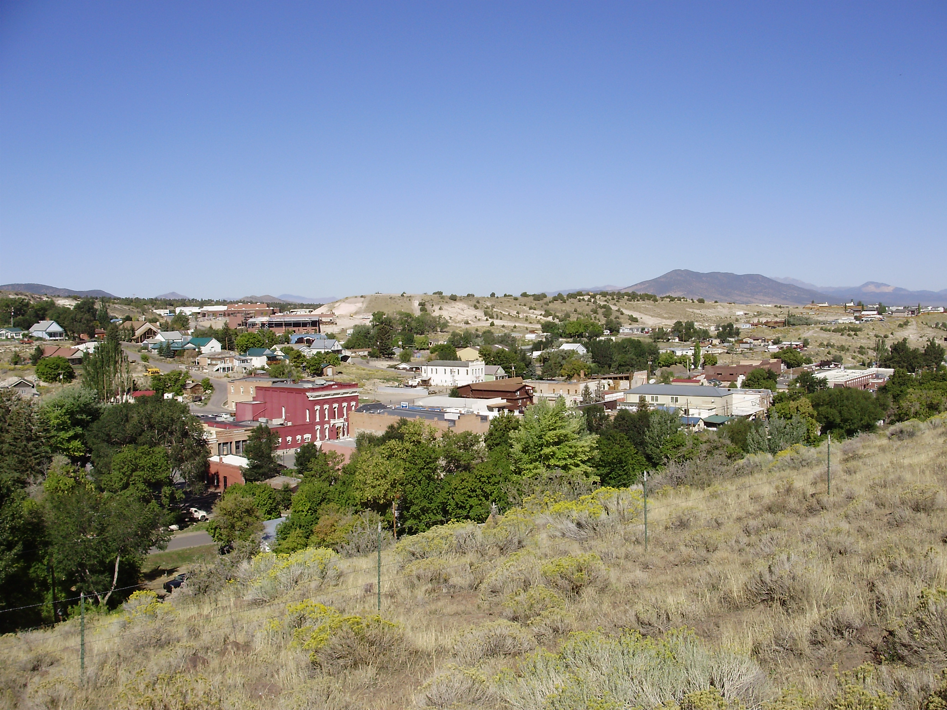 View of downtown Eureka, Nevada